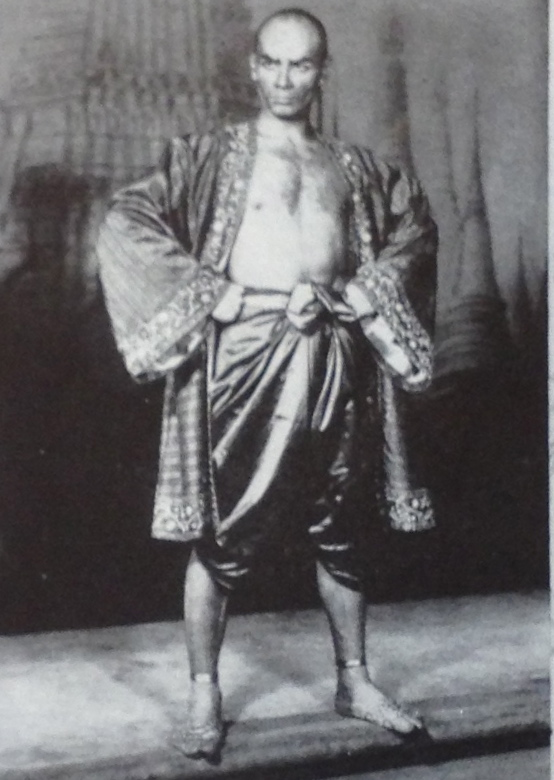 Yul Brynner as the King, from a 1951 souvenir program for The King and I. Lacks any copyright notice, so it is no longer under copyright. Image can be found here